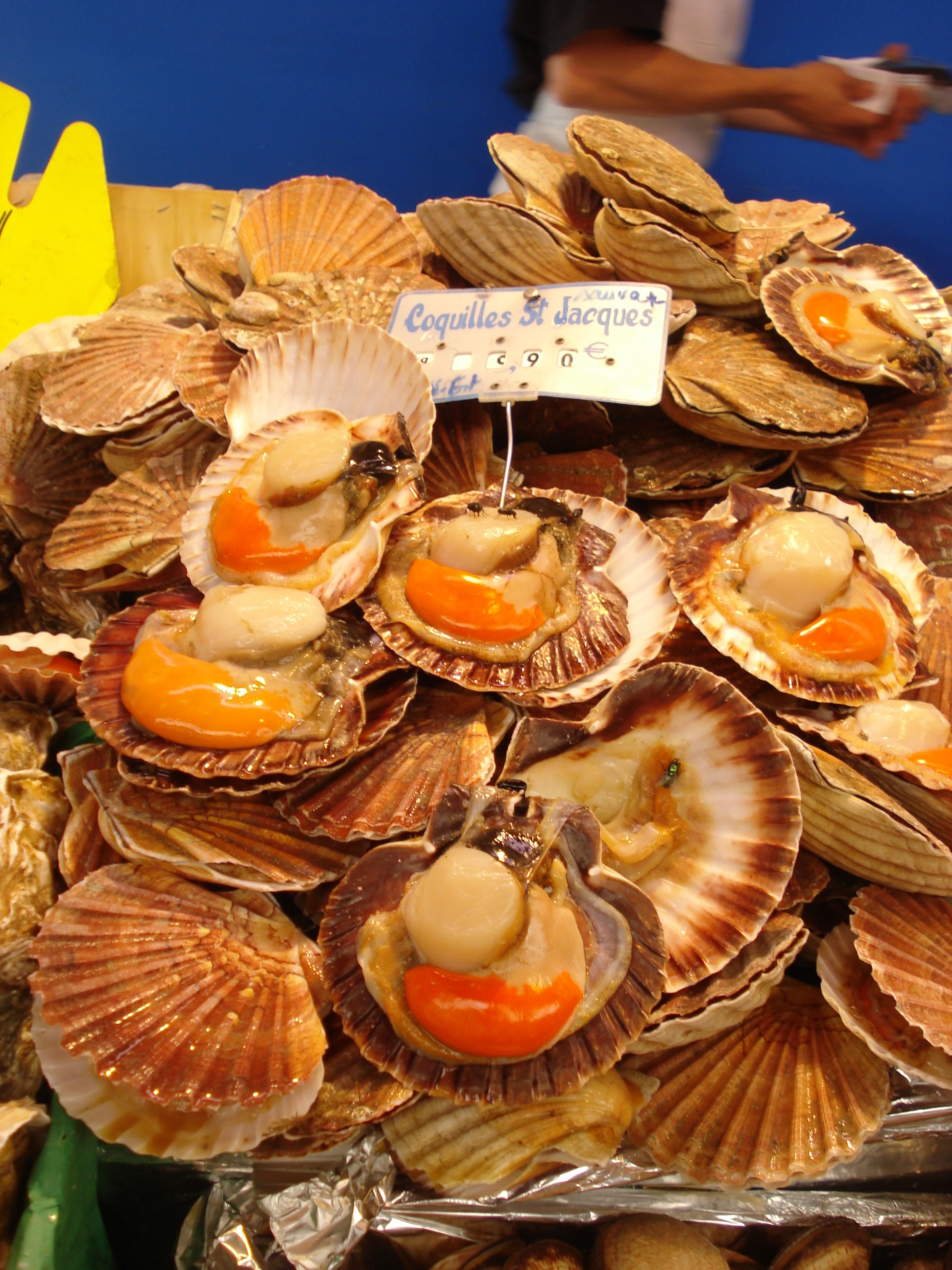 King scallops (Pecten maximus).